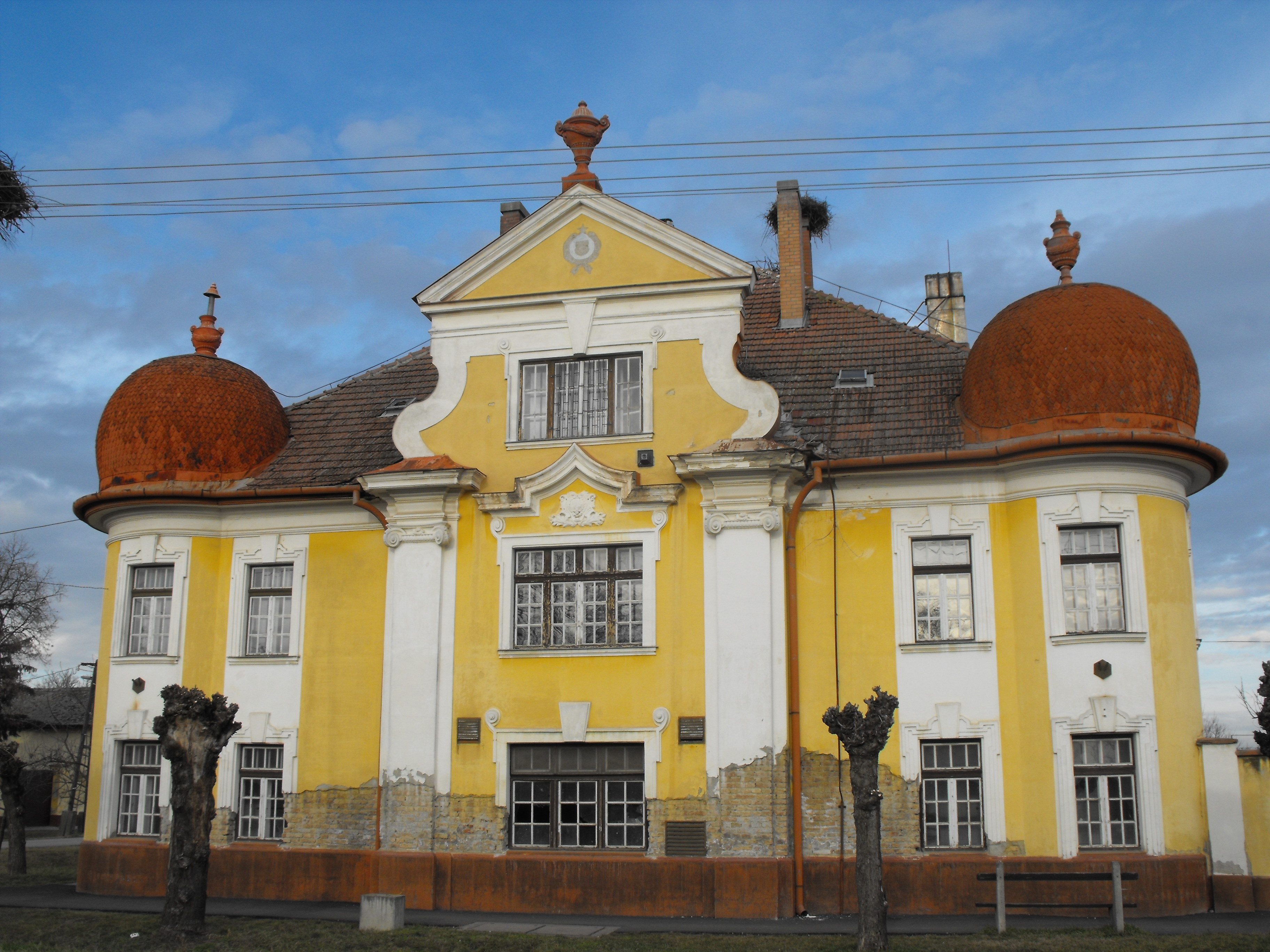 Judge's manor in Csanádpalota, Hungary.